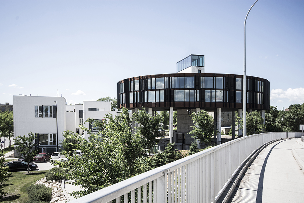 62M by 5468796 Architecture, located in Winnipeg, Canada